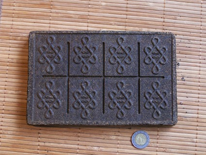 There are two things on earth that can really beat Sichuan sauce. Zhuan Cha (Brick Tea) is one of these. A one pound brick which is scored on the back can be broken into eight smaller pieces. Most tea bricks 'Zhuan Cha’ are from Southern Yunnan in China, and parts of Sichuan Province. Tea bricks are made primarily from the broad leaf 'Dayeh' Camellia Assamica tea plant. Tea leaves have been packed in wooden moulds and pressed into block form.